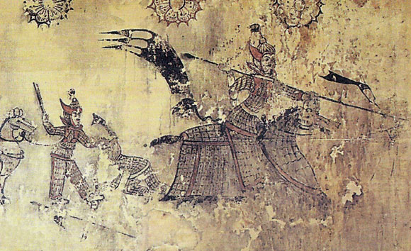 Goguryeo Armor Mural